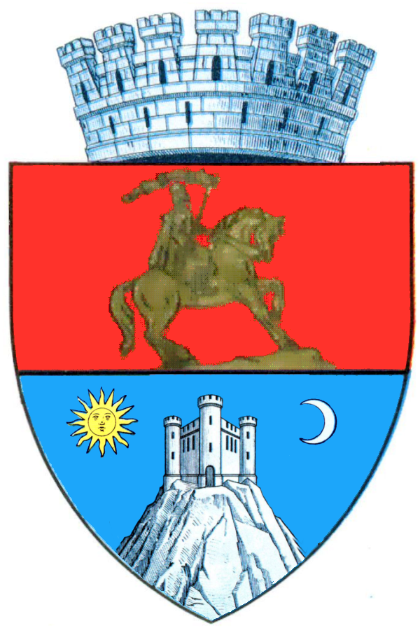 Deva.